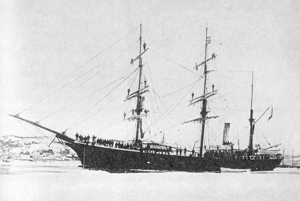 Norwegian seal boat, the barque Castor